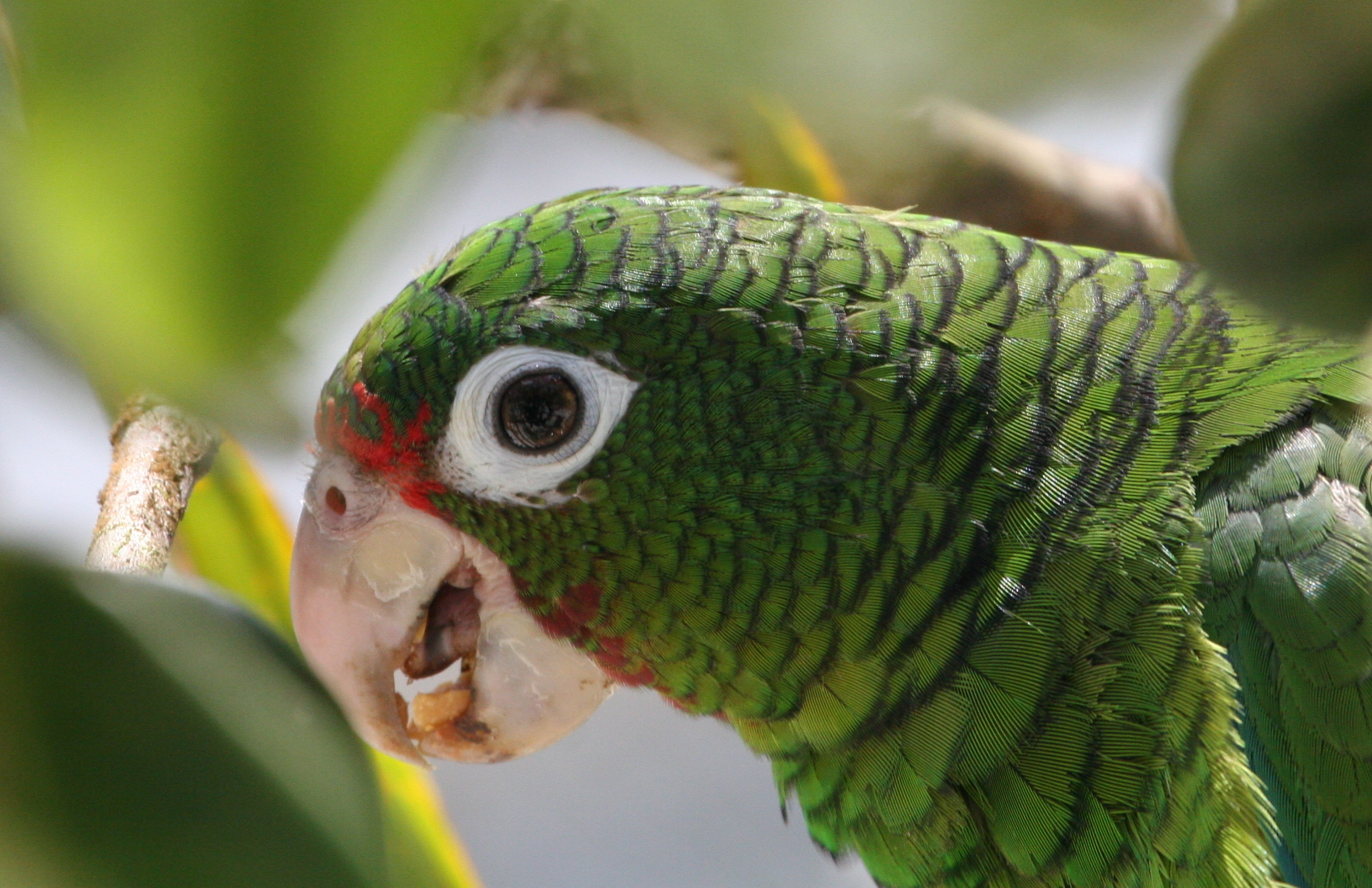 A Puerto Rican Amazon at Iguaca Aviary, Puerto Rica.